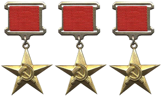 Soviet Medals «Hammer and Sickle» (Hero of Socialist Labour)